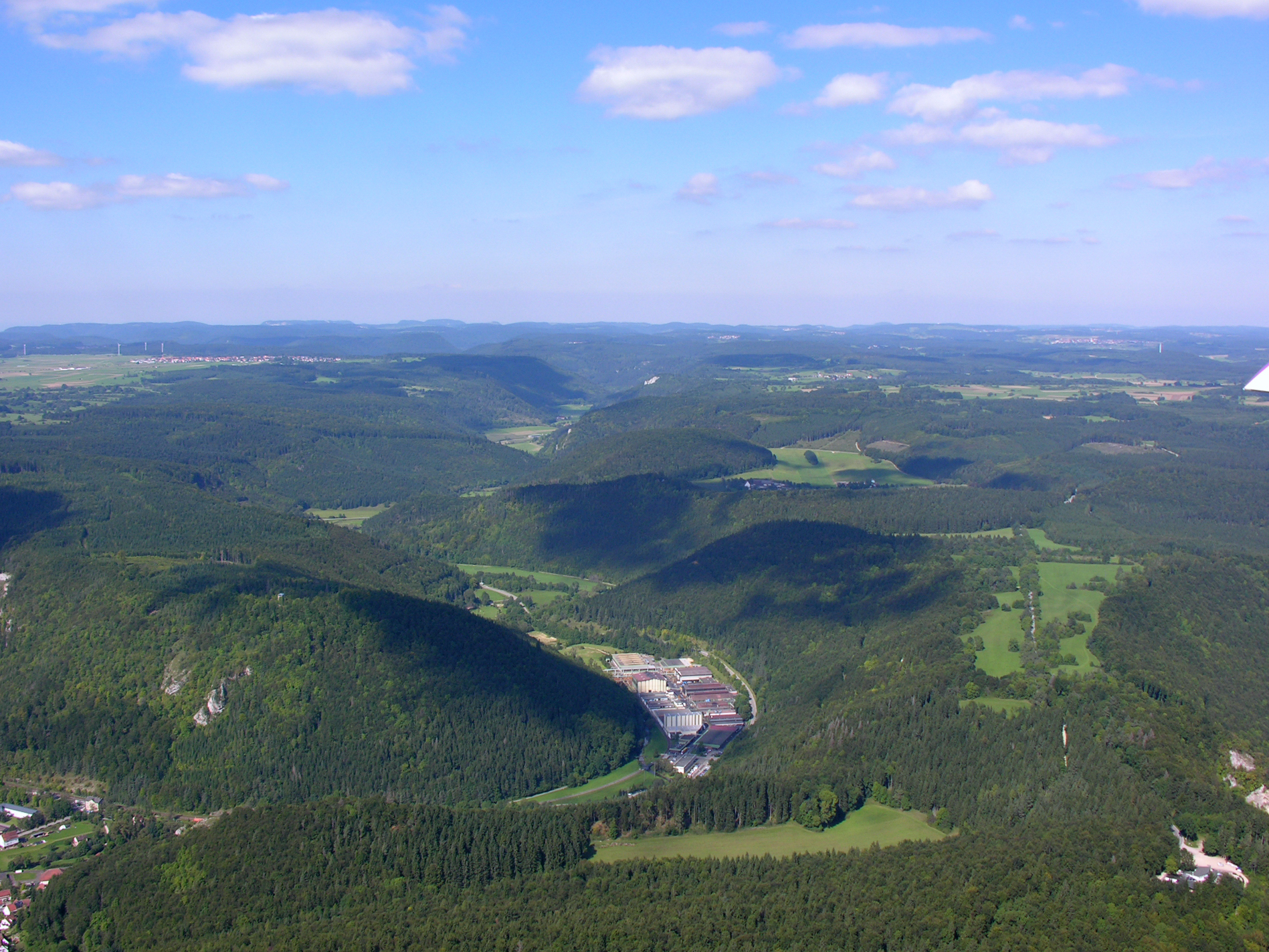 Germany, Baden-Württemberg, aerial view of the Bära valley overhead Fridingen; Hammerwerk Fridingen